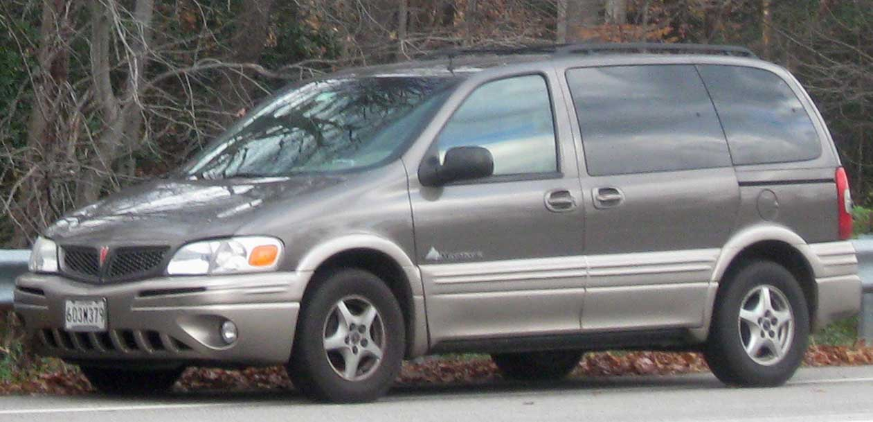 Pontiac Montana photographed in College Park, Maryland, USA.